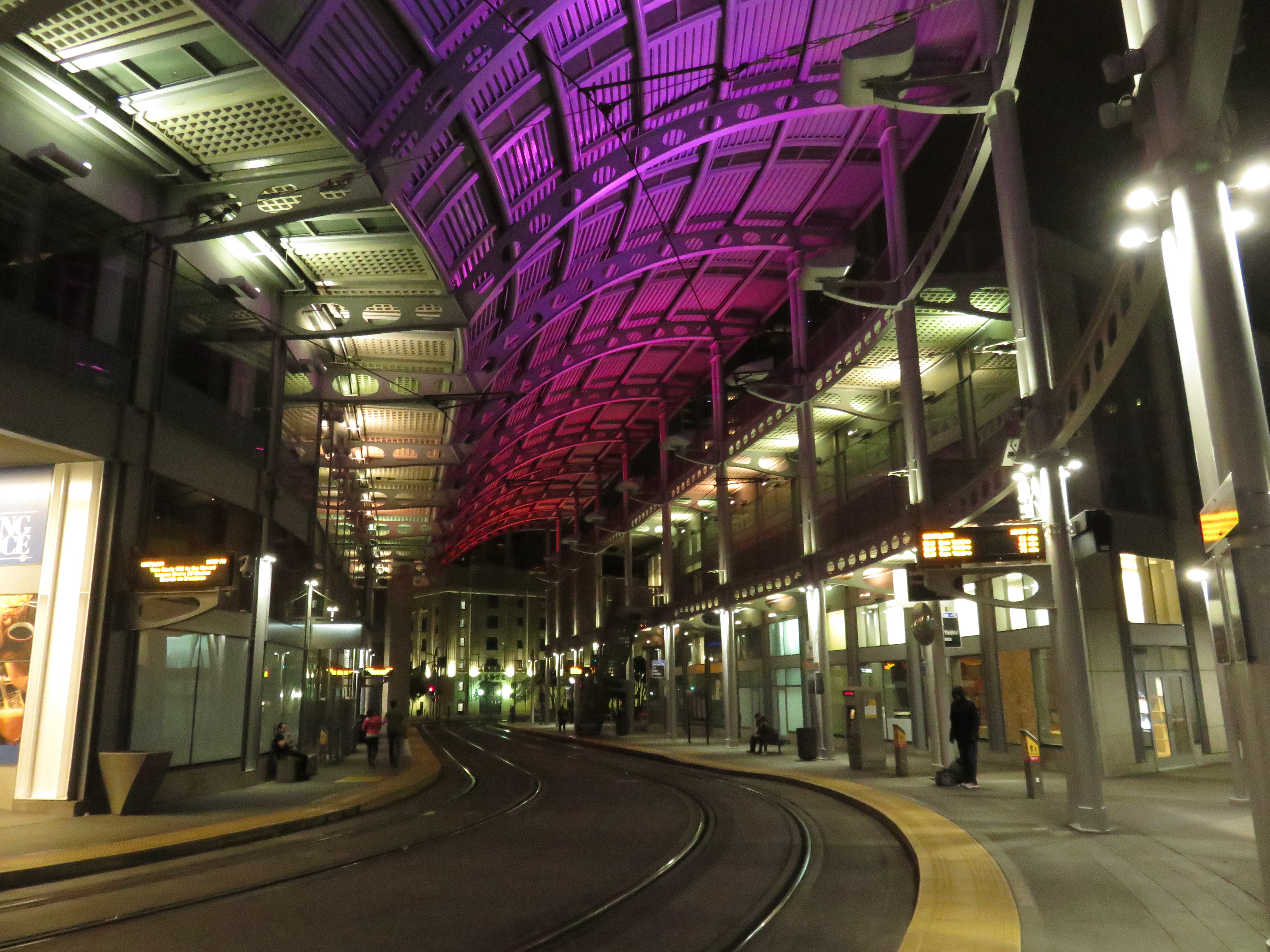 America Plaza San Diego Trolley station at night in 2019